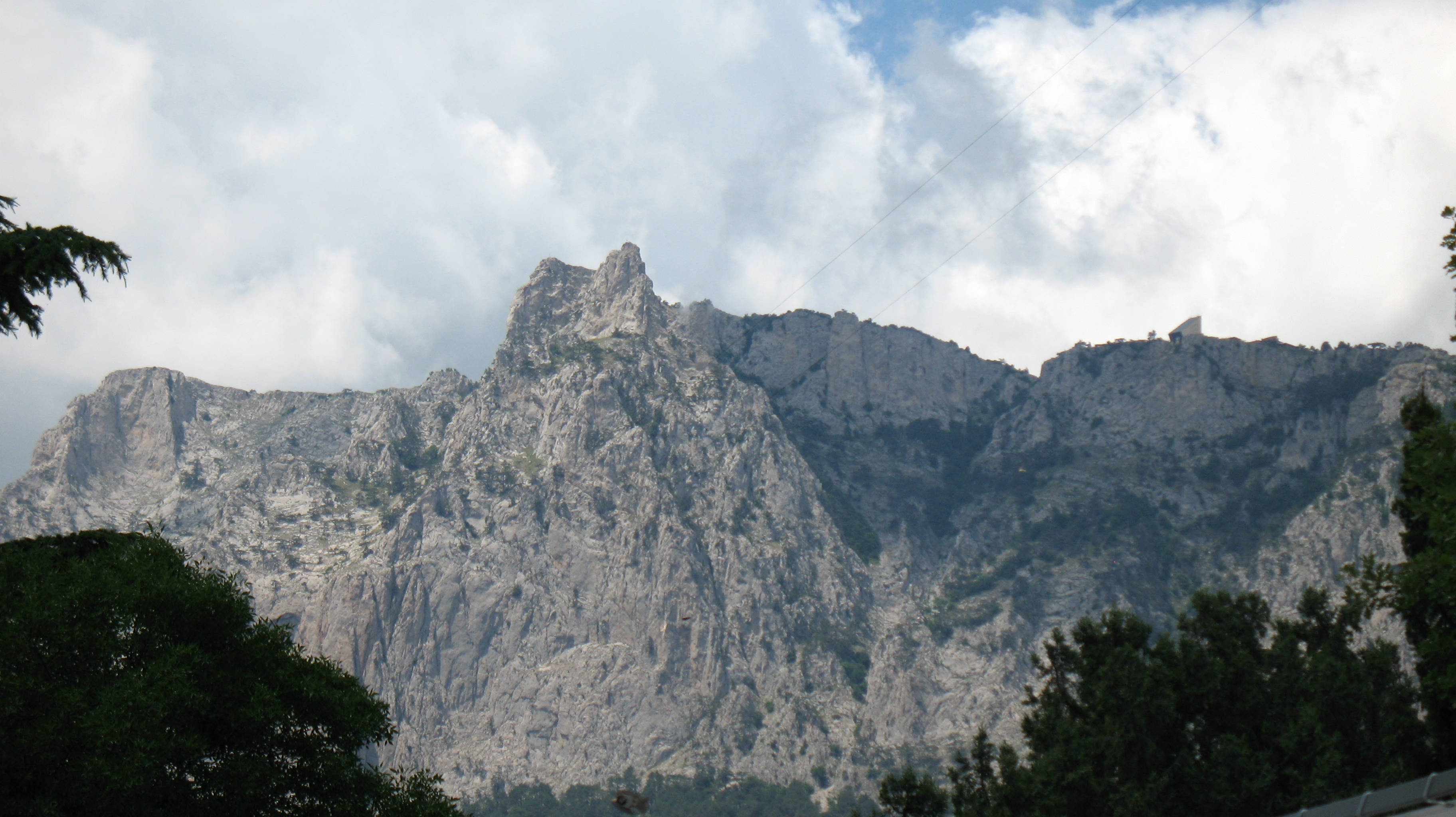 View of Mount Aj-Petri, of Mishor. Ukraine. Yalta. Crimea.